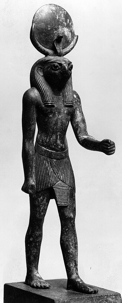 Khonsu could be represented either as a youth or a falcon-headed male with a moon-disk and crescent on his head, as here. He is mentioned as a moon god in the pyramid texts as early as the 3rd millennium BC. As the son of Amun and Mut he was worshipped in Karnak where he had his own temple from the Middle Kingdom onwards.